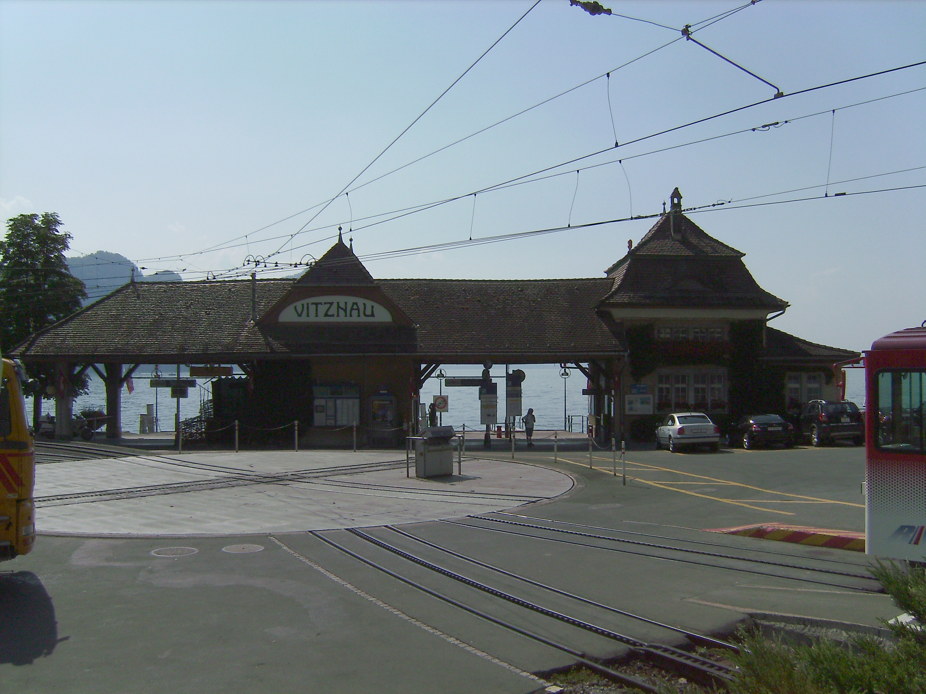 Passenger ship lake terminal in Vitznau, Switzerland (lake Lucerne).